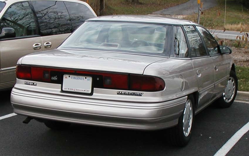 1994-1995 Mercury Sable photographed in USA.